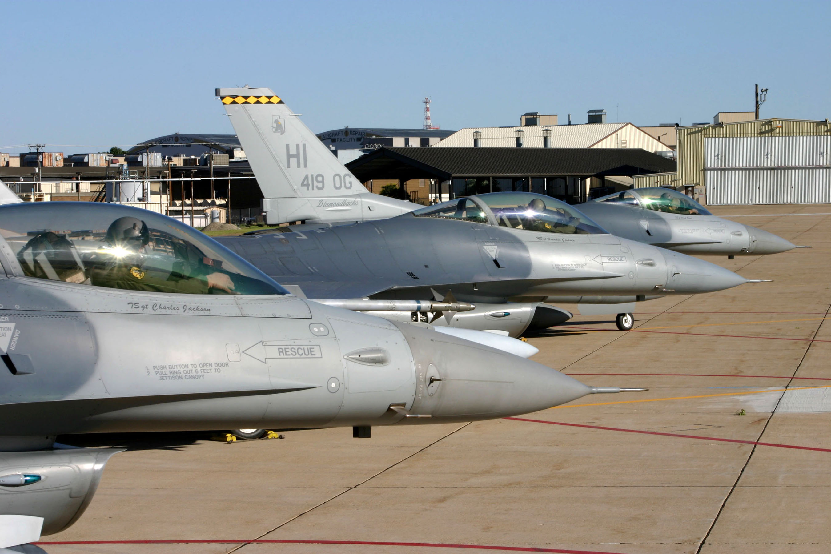 The last three F-16 Fighting Falcons assigned to the 419th Fighter Wing prepare to taxi for departure June 28 from Hill Air Force Base, Utah. The wing's entire fleet of F-16s have been reassigned to other Reserve and Air National Guard bases.